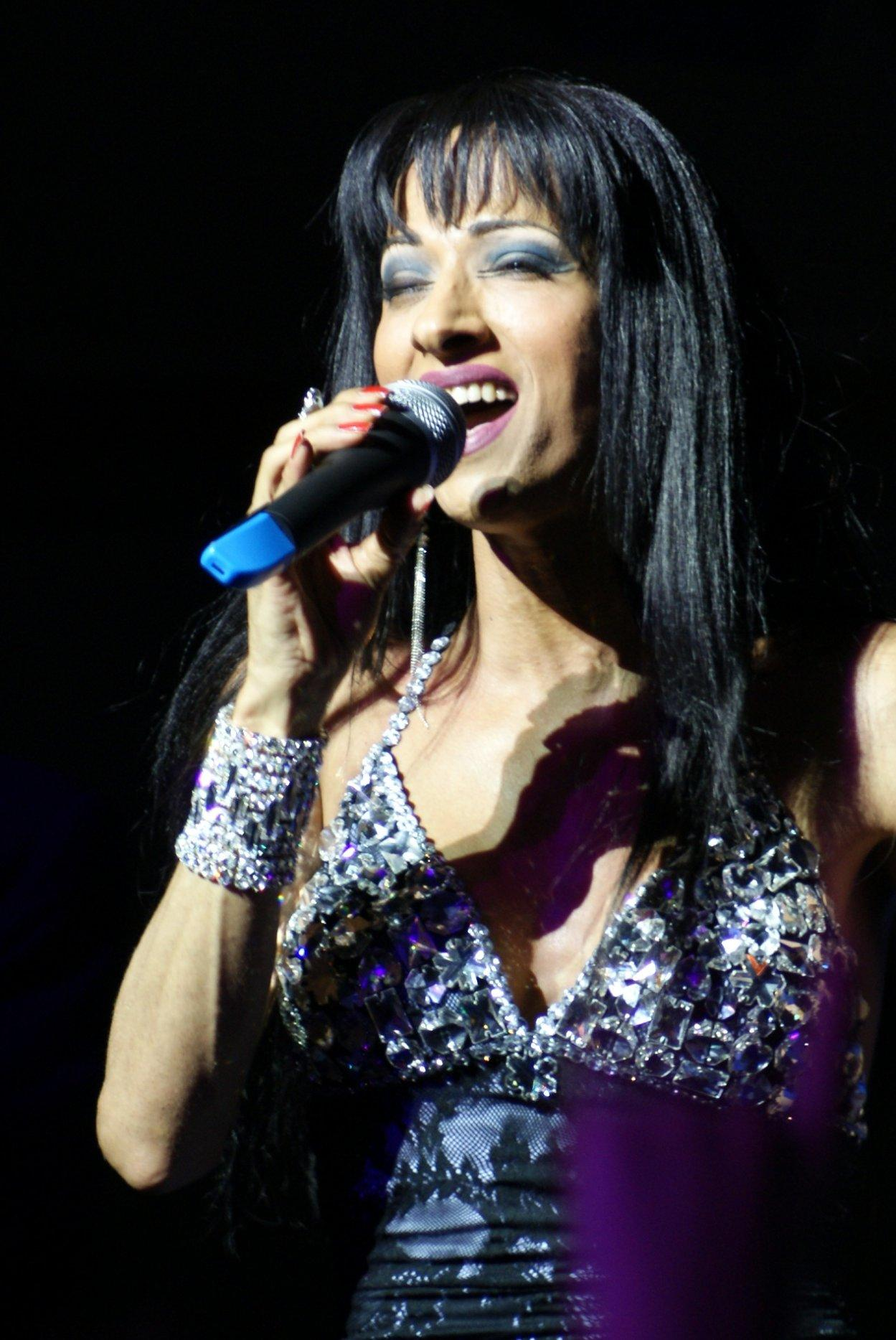 The winner of the Eurovision Song Contest - Birmingham 1998